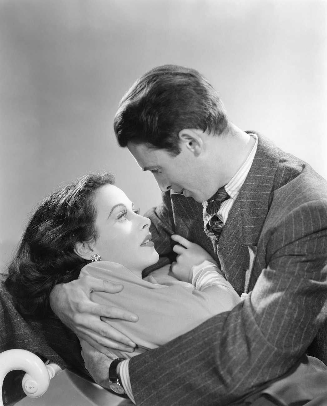 Hedy Lamarr and Jimmy Stewart on stage during the filming of Come Live With Me (1941).